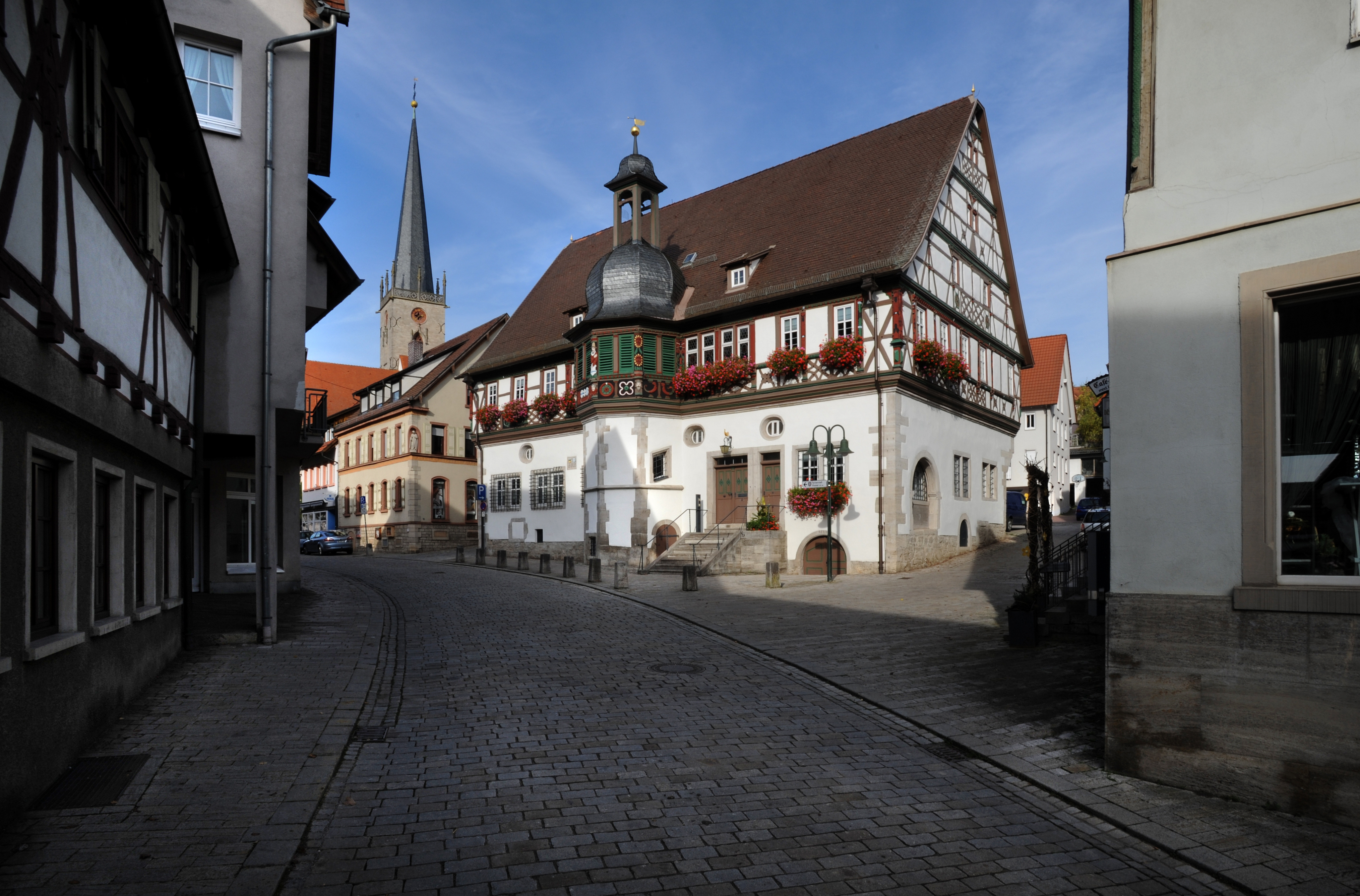 Grünsfeld, a nice town in the Main-Tauber-Kreis.